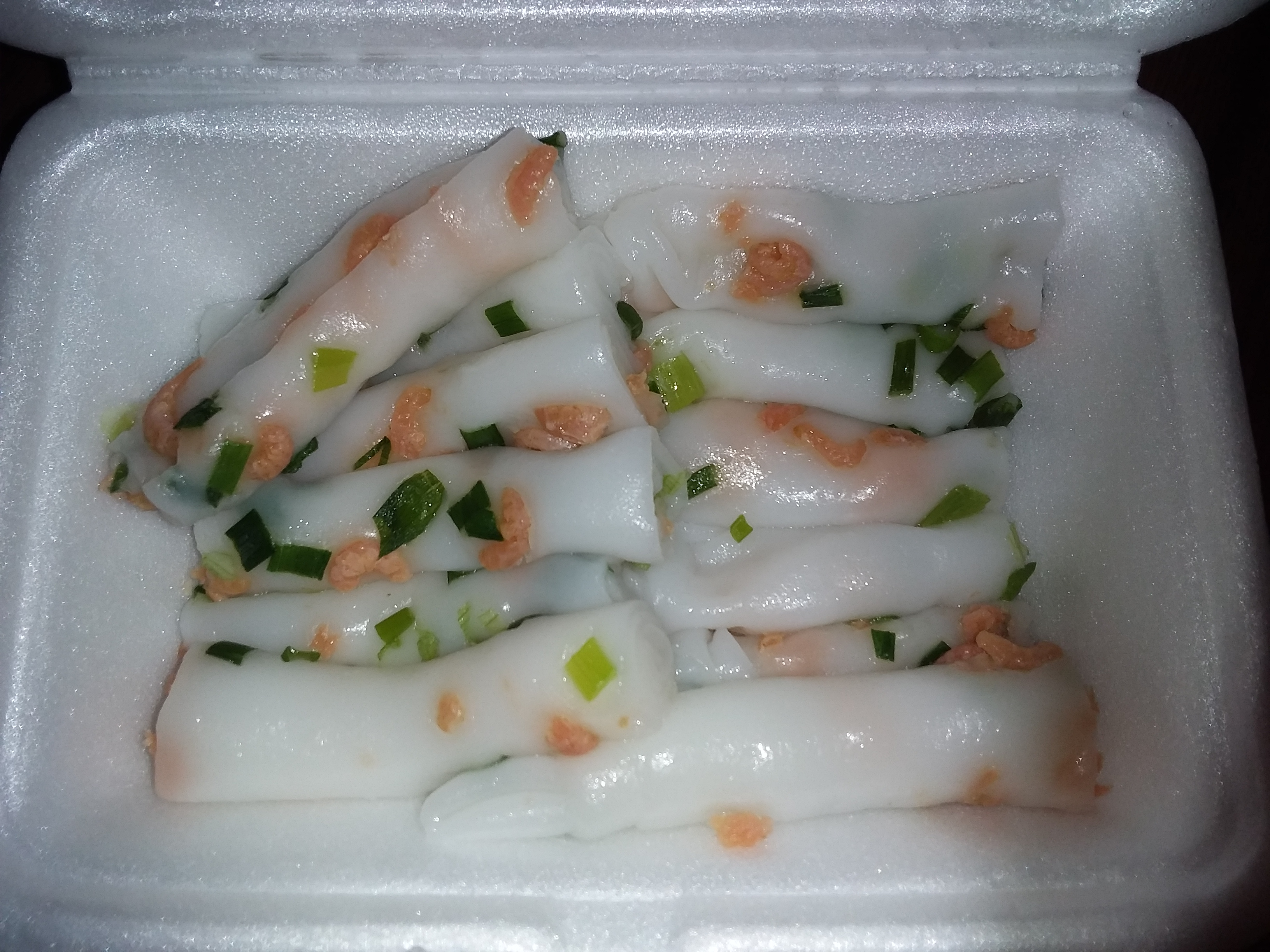 HK 觀塘 Kwun Tong 牛頭角 Ngau Tau Kok 外賣食品 take-away white box 白色發泡膠盒 rice noodle rolls 豬腸粉 葱花 April 2019